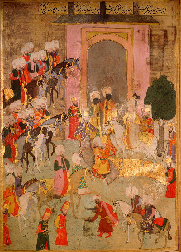 Episode from the circumcision ceremonies of the future Mehmed III, in 1582. The departure of the prince's party from the Eski Saray (old palace), to the Hippodrome.